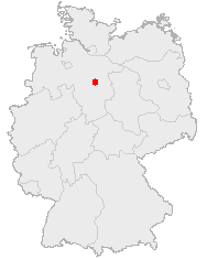 Used for